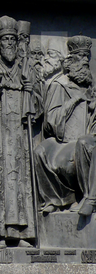 Georgy Konissky on the Monument "Millennuim of Russia" in Veliky Novgorod